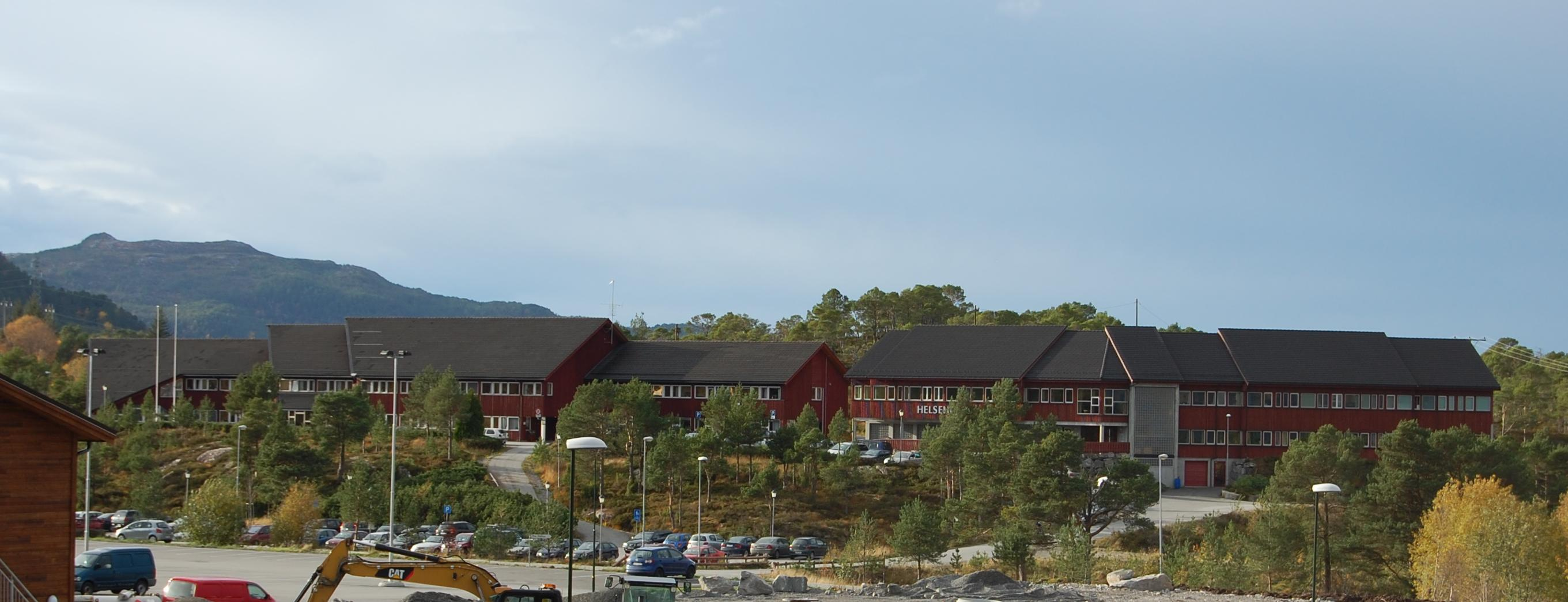 City hall in former Frei municipality, county of Møre og Romsdal, Norway.